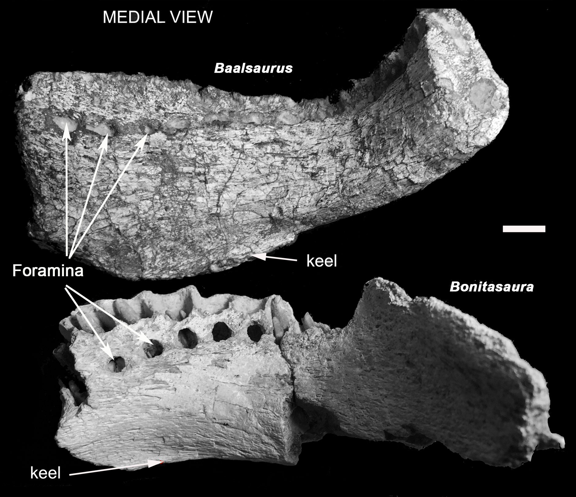 Jaw of Bonitasaura (bottom) compared to that of Baalsaurus (top)